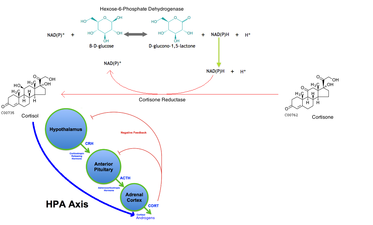 An overview of how Cortisone Reductase Deficiency is driven by NADPH production by hexose-6-phosphate and how it affects the HPA Axis.